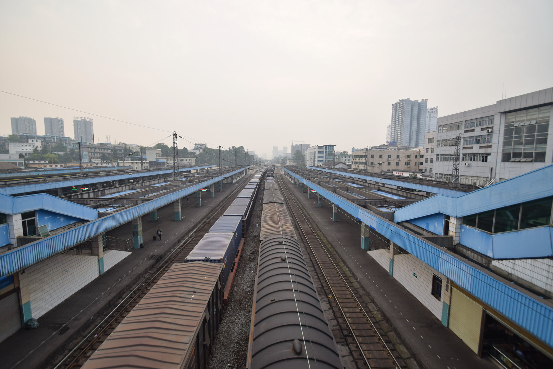 Platforms of Huaihua Railway Station